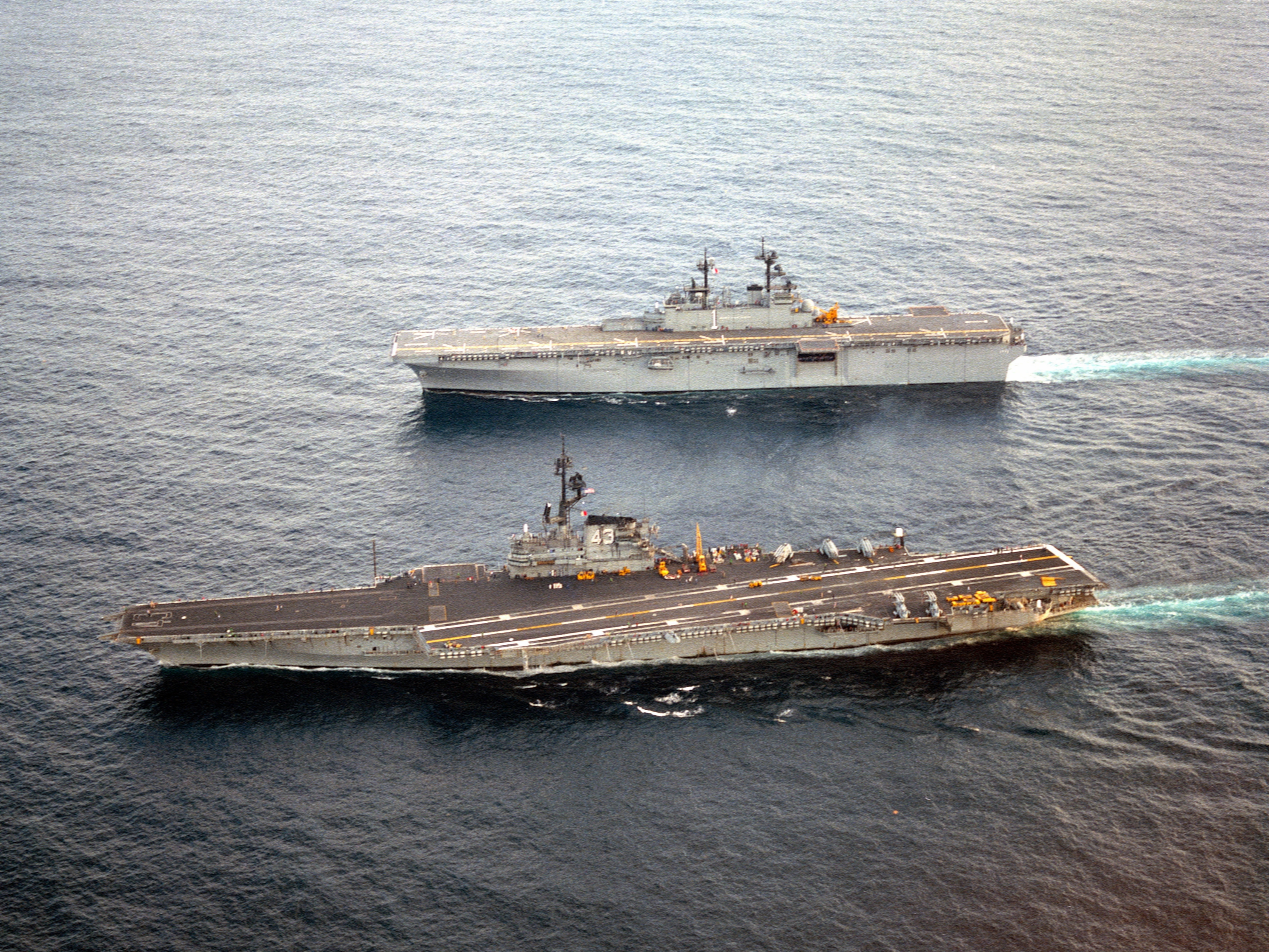 The U.S. Navy aircraft carrier USS Coral Sea (CV-43), foreground, and the amphibious assault ship USS Wasp (LHD-1) sail alongside one another. The Coral Sea was returning to Norfolk, Virginia (USA), at the end of her last deployment before her decommissioning, whereas the Wasp had been commissioned only two months before the photo was taken.